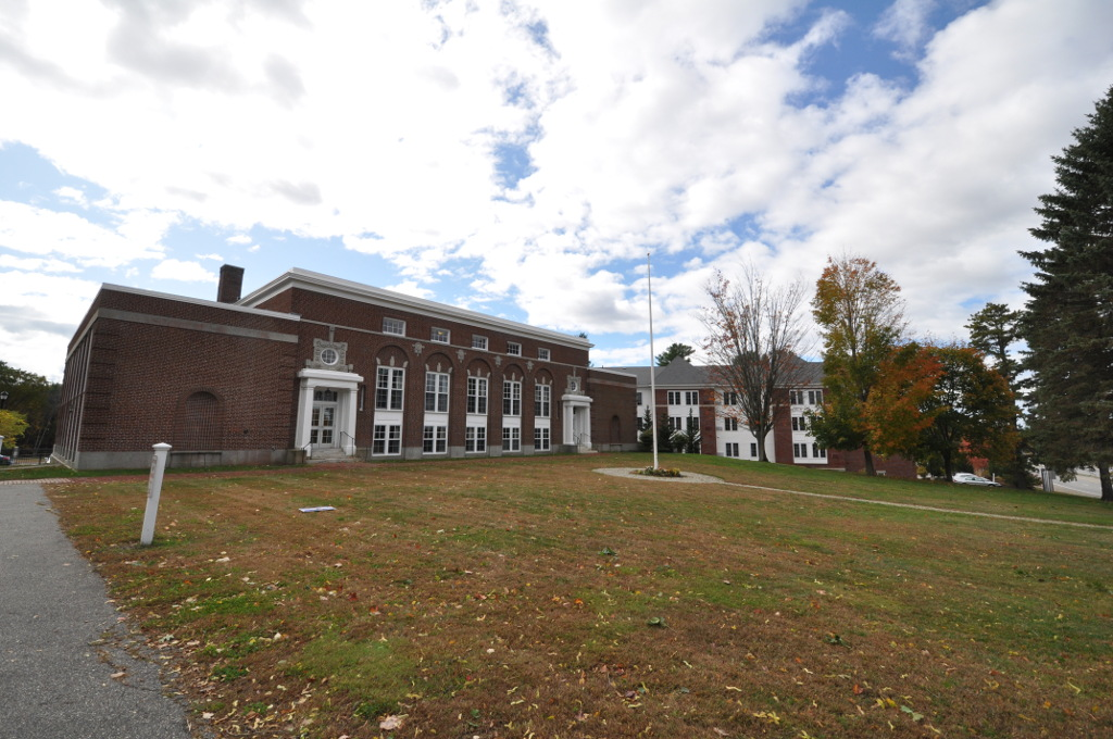 Scarborough High School, now Bessey Common, Scarborough, Maine.